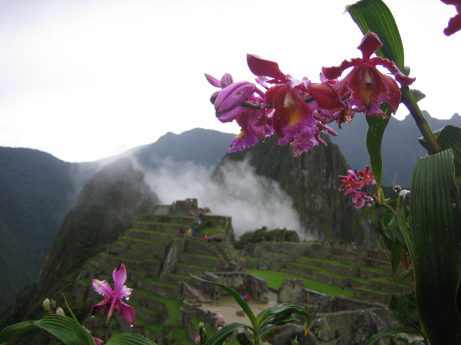 Sobralia dichotoma. Machu Picchu is surrounded by these beautiful pink orchids.